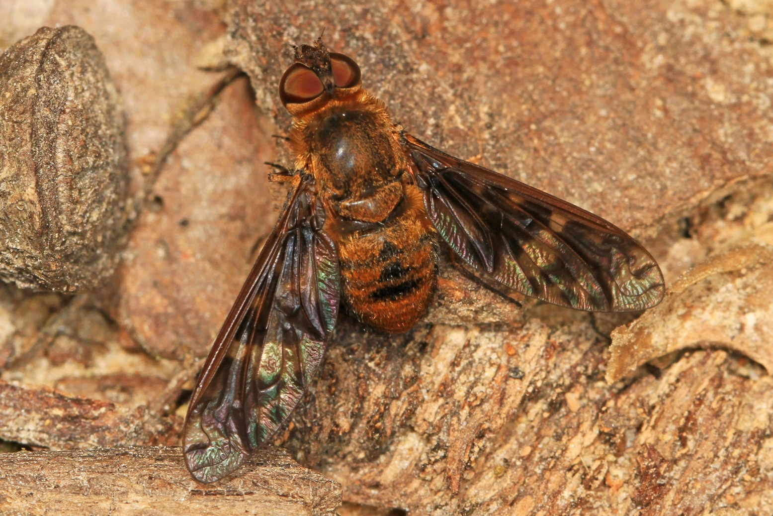 Huron Shore Bee Fly - Dipalta banksi, Soldier's Delight, Owings Mills, Maryland Baltimore County - 8/8/2014 ID by Bugguide - see (although I think this could also be Dipalta serpentina, mentioned at MBP)